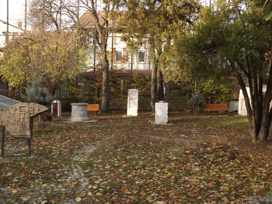 Municipium Ulpiana